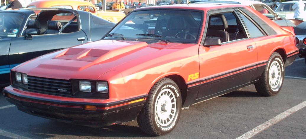 1979-1982 Mercury Capri photographed in Montreal, Quebec, Canada at Gibeau Orange Julep.